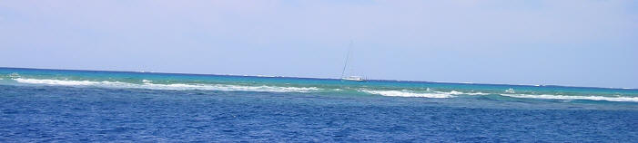 Yacht anchored at one of the Minerva Reefs, Tonga, Pacific Ocean